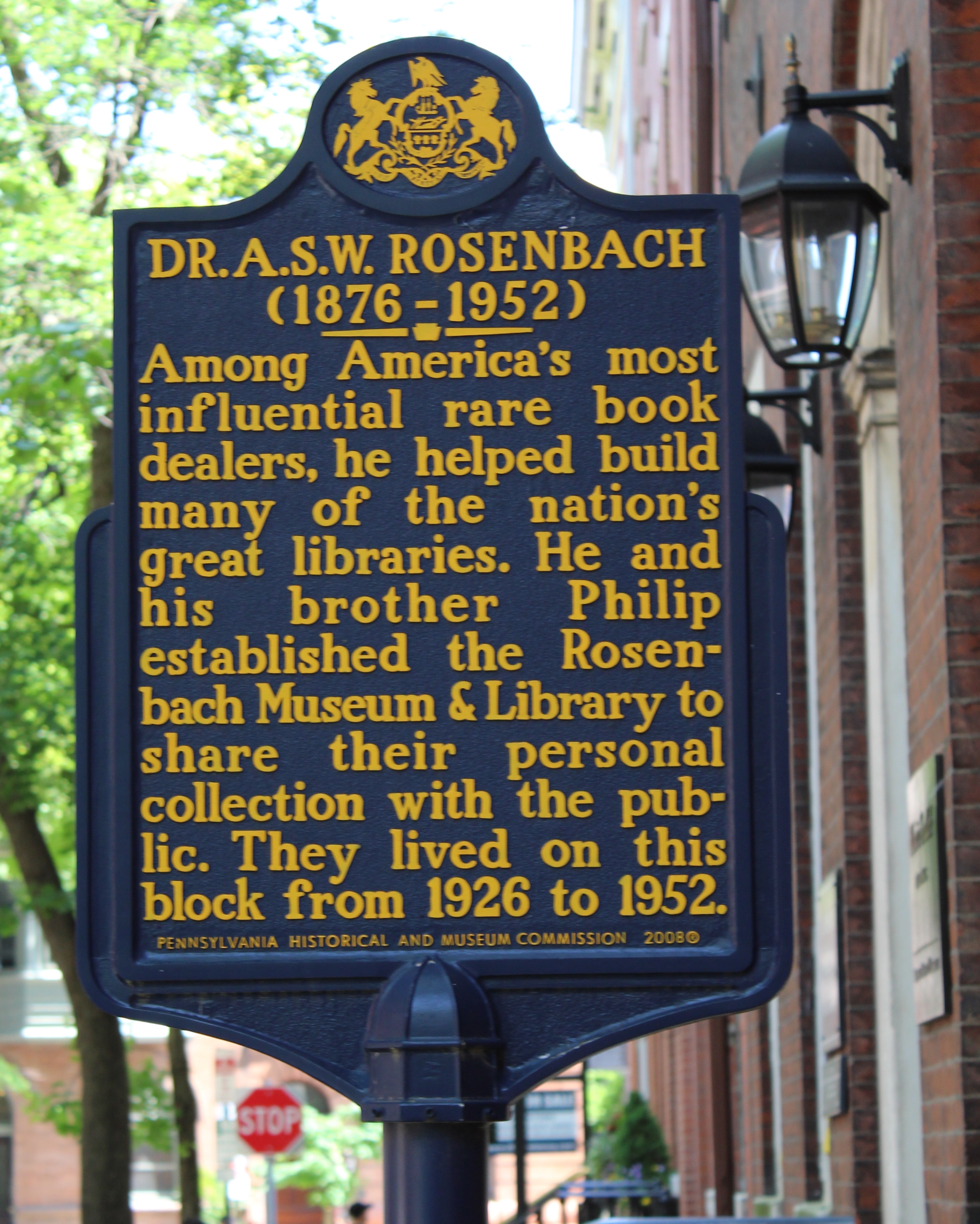 A historical marker honoring Dr. A.S.W. Rosenbach in front of The Rosenbach Museum and Library in Philadelphia.